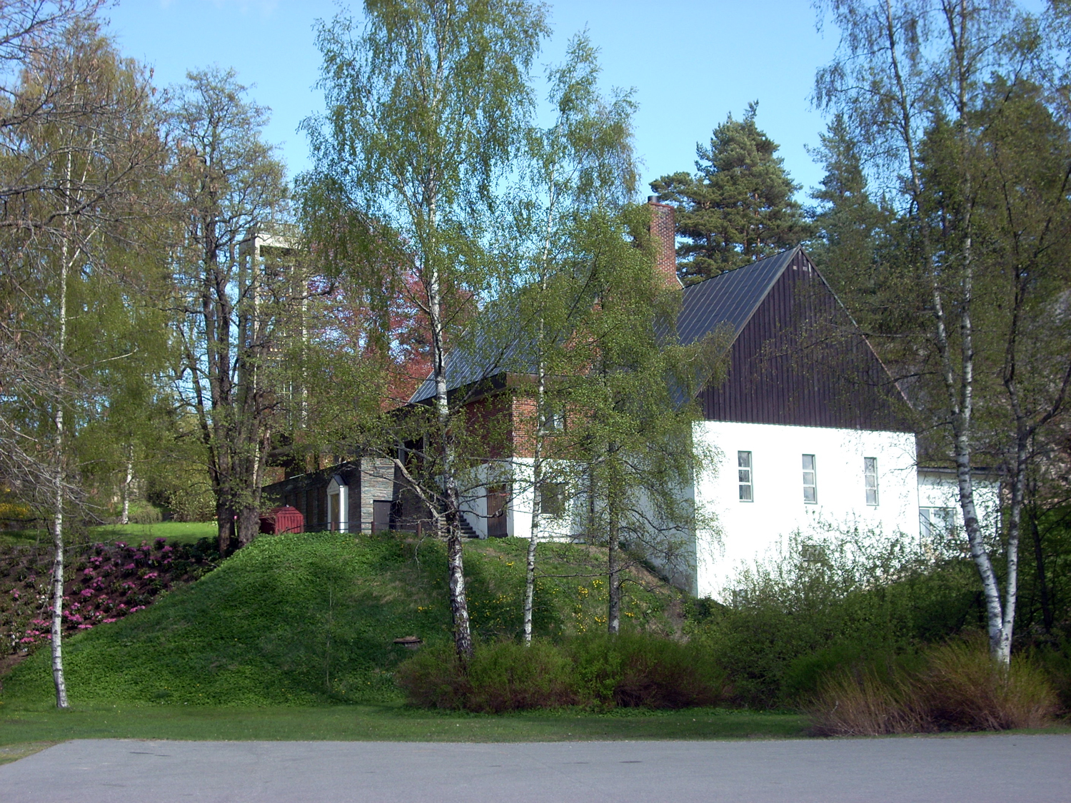 Arendal Chapel at Arendal graveyard, Arendal, Norway